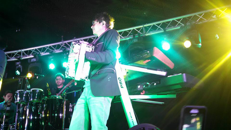 This is an updated picture of Armando Lichtenberger Jr. La Mafia came to perform at Florida Orange in Lakeland Florida.